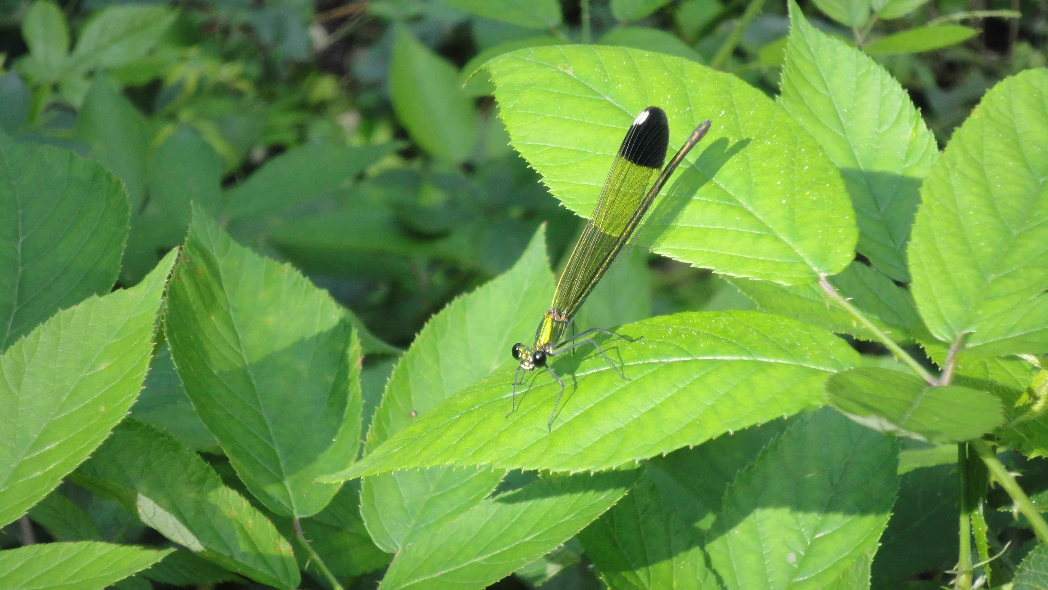 damselfly in the north of iran.